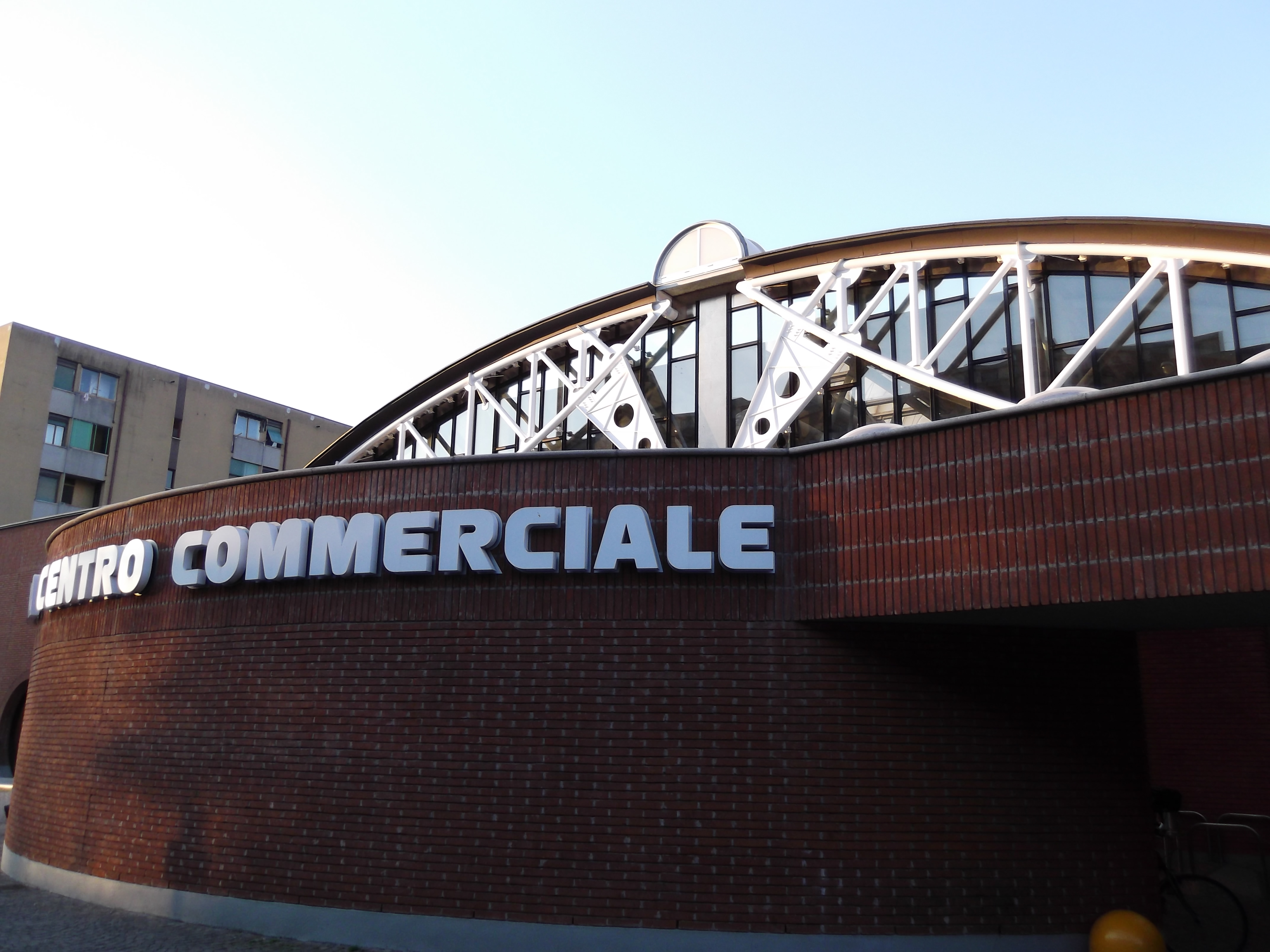 Centro commerciale esselunga di Mario Botta